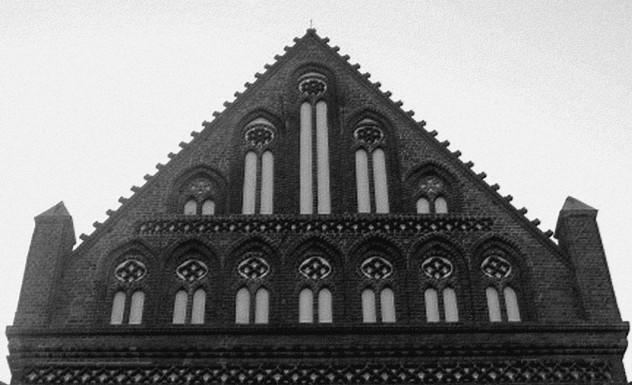 The apex of facade of presbytery StMary's church in Gryfice (Poland)